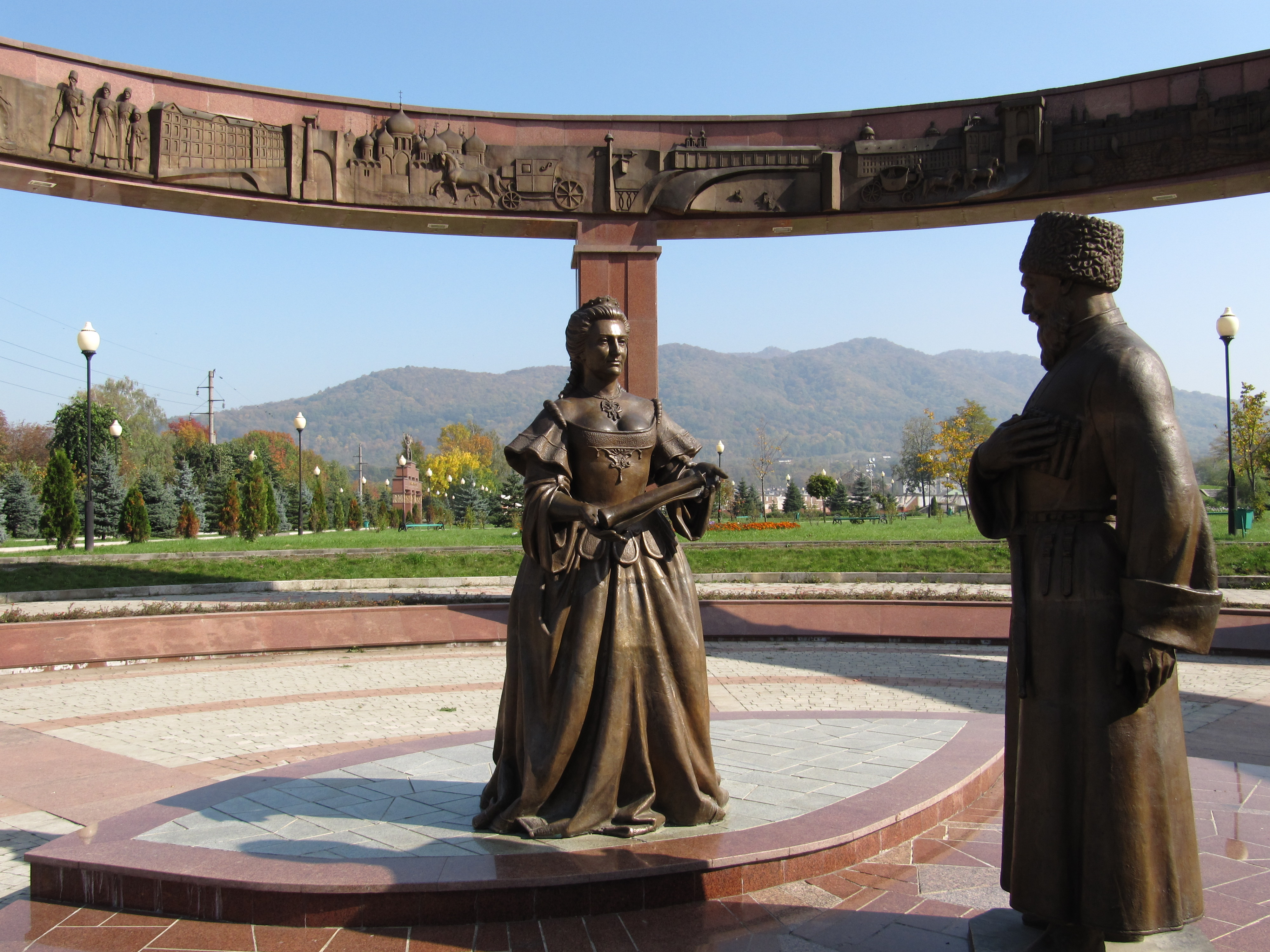 Памятник "200 лет с Россией", Владикавказ, Северная Осетия